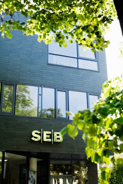 SEB in Zverynas, Vilnius